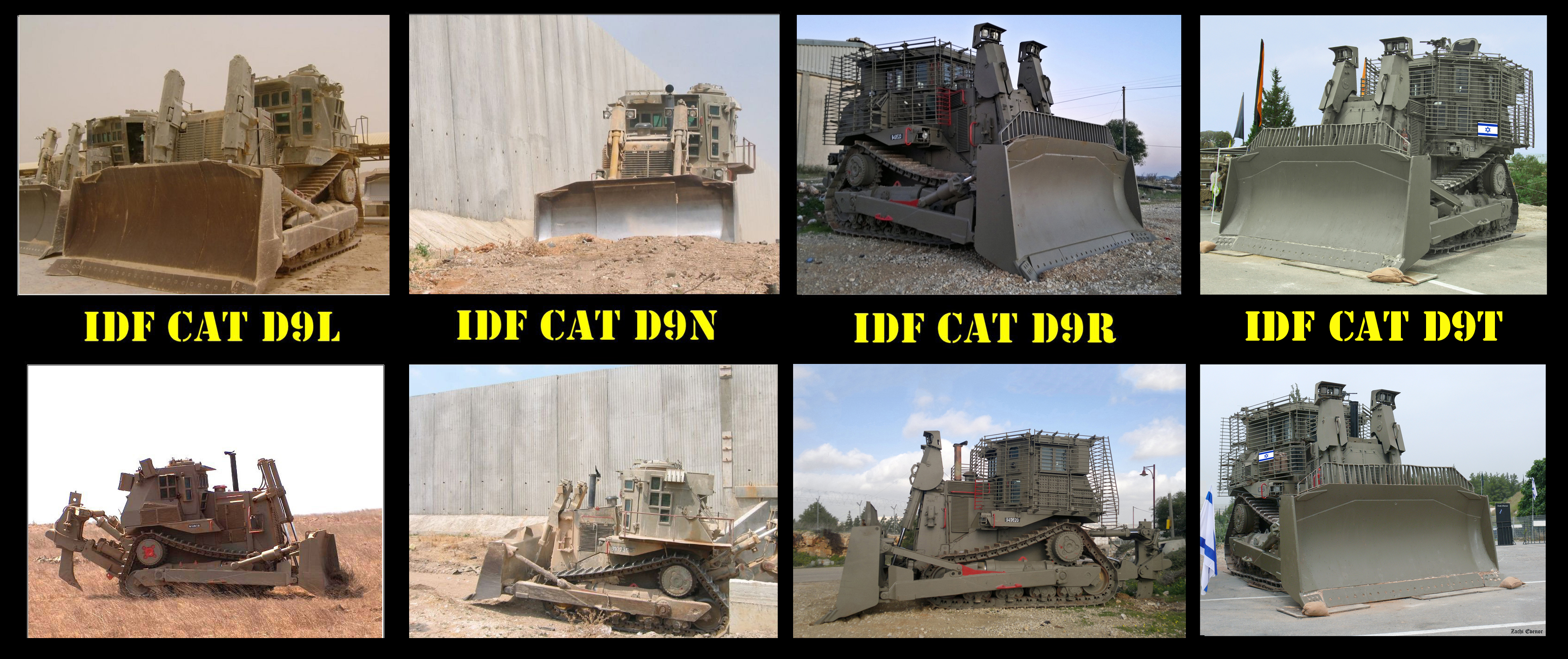 IDF Caterpillar D9